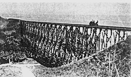 May K. Rindge built her own 15-mile, standard-gauge railroad on her ranch in Malibu, California, in an effort to thwart the Southern Pacific from using eminent domain to run its tracks through her property.